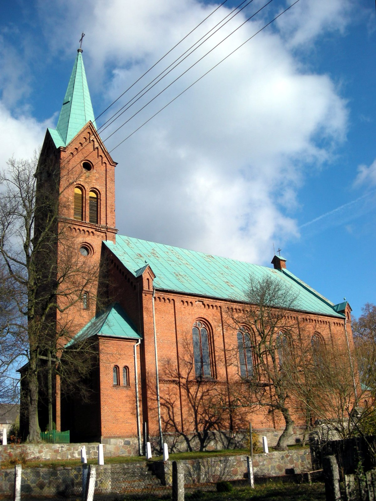 The church of Saints Peter's and Paul's in Lędyczek, Poland.